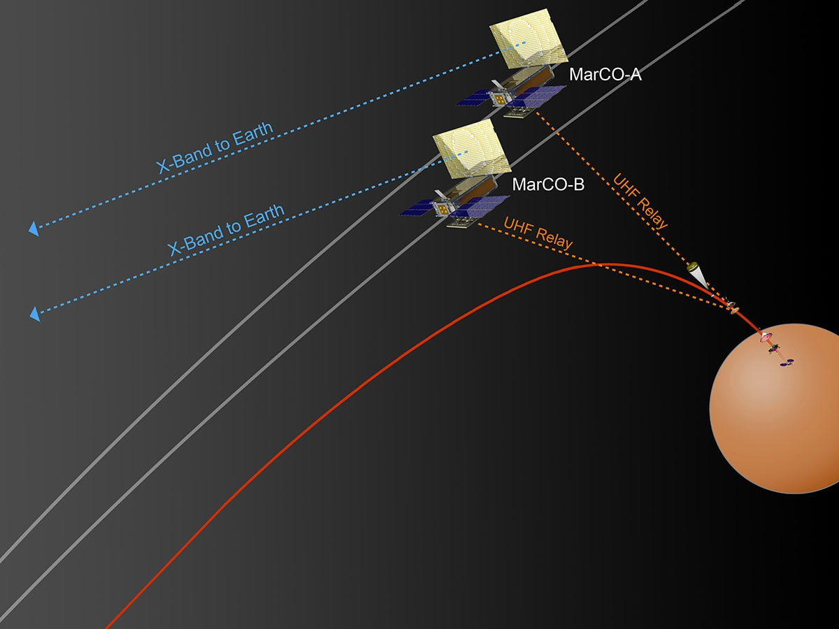 MarCO will relay data from InSight to Earth during InSight's descent through Mars' atmosphere